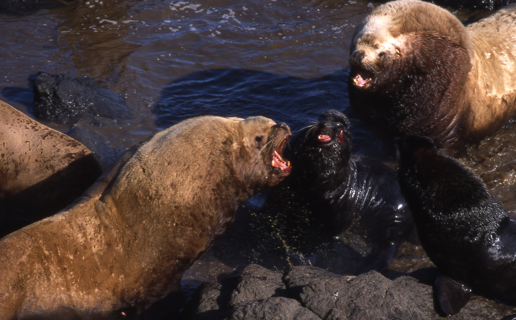 Steller sea lion & northern fur seal